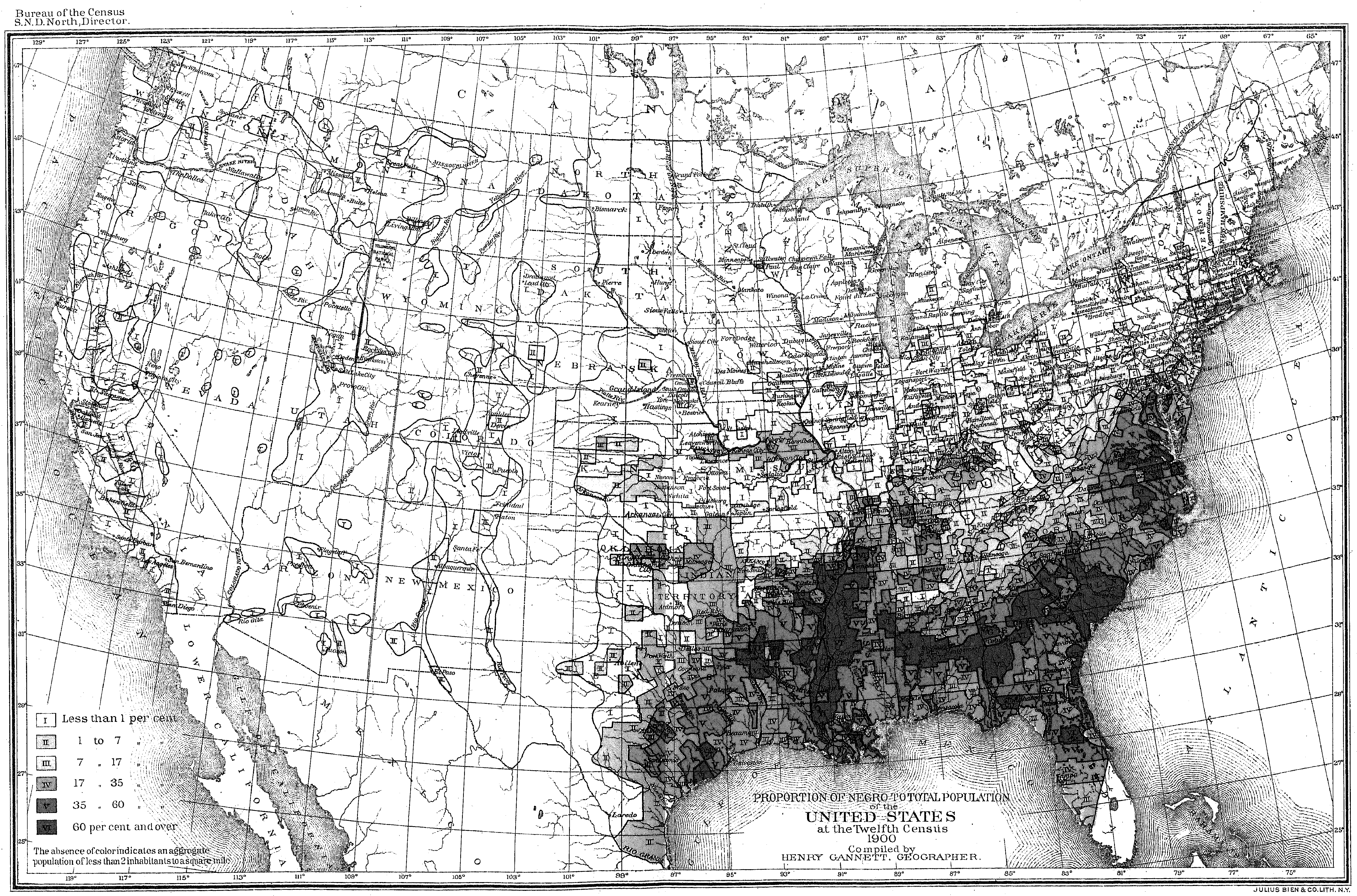 Original Title: Proportion of Negro to Total Population at the Twelfth Census 1900. Six-level map of Black population share of United States population.